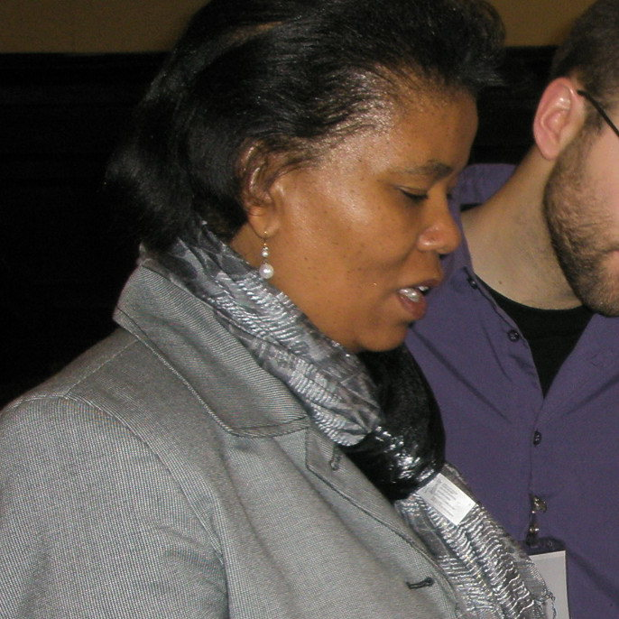 Ellen Tise, IFLA president and the convenor of the IFLA New Professionals Special Interest Group.